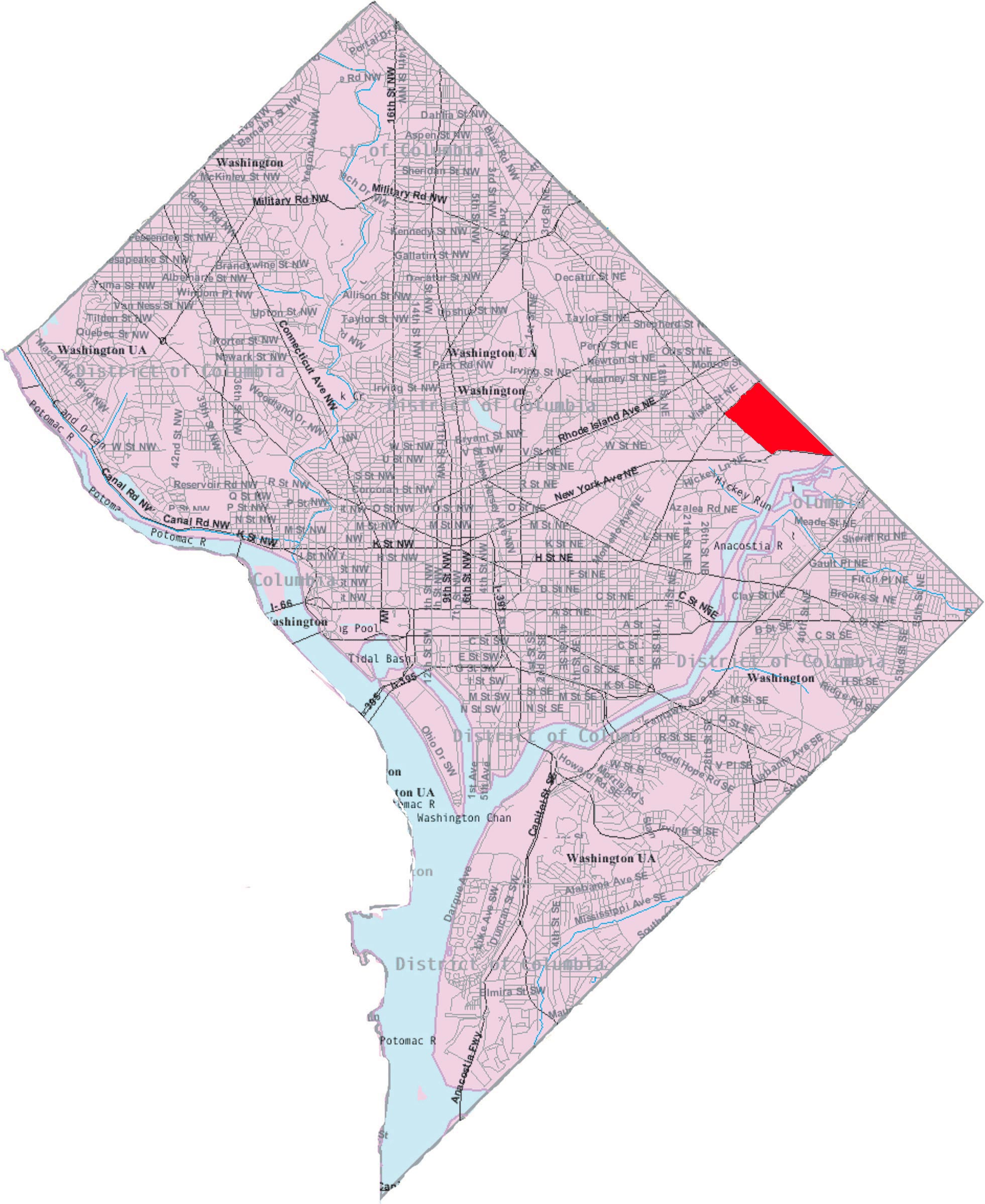 This image is a modified version of a self-generated reference map from the U.S. Census Bureau's American Factfinder at by Wikipedia user Msclguru.